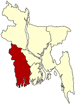 Locator map of Khulna Division in Bangladesh